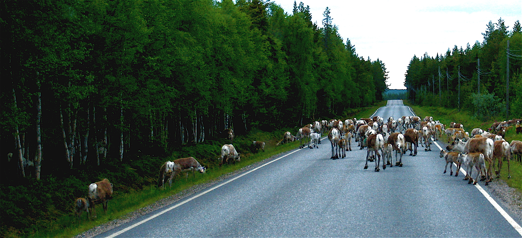 Reindeer blocking the road in Kuusamo, Finland